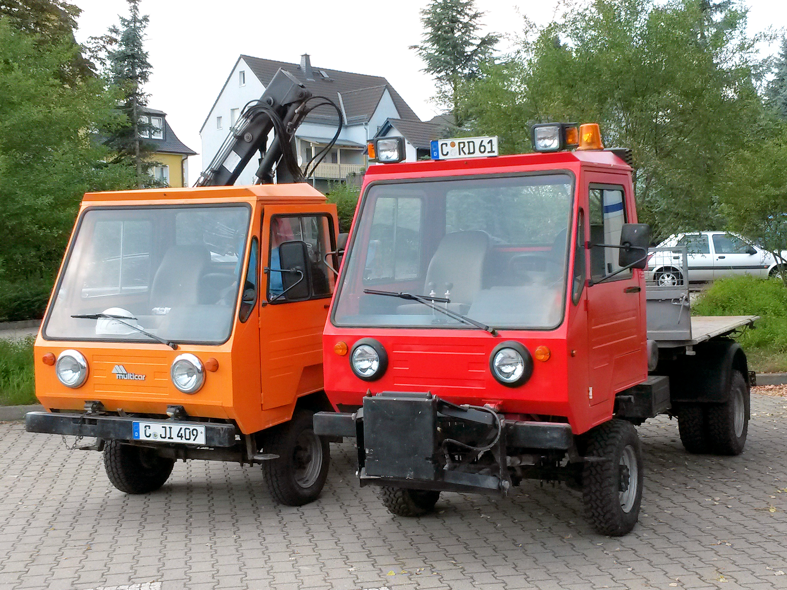 Multicar 25 4x2 and 4x4